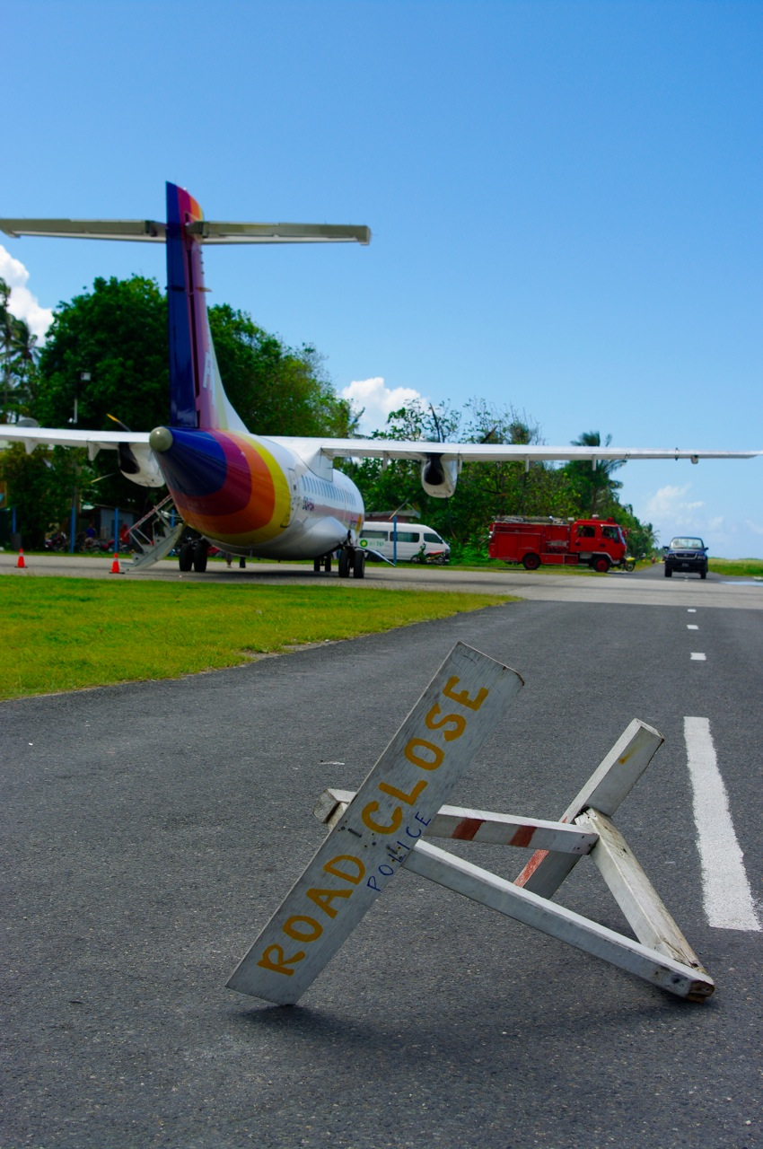 Pacific Sun ATR 42-500 DQ-PSB at Tuvalu